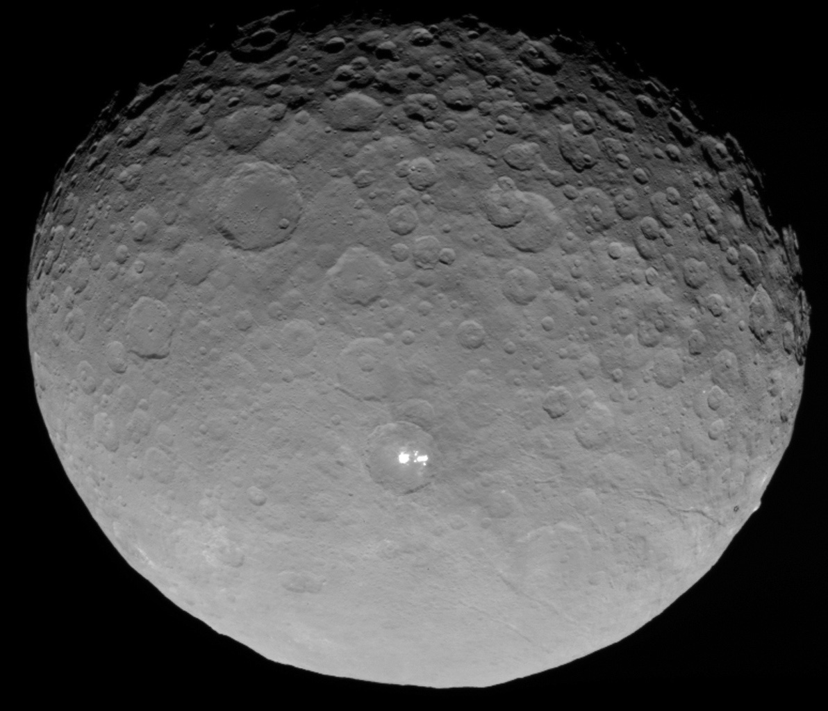 Ceres photographed by NASA's Dawn spacecraft from a distance of about 13500km, including the two prominent bright spots. Similar part of the surface as File:Ceres RC2 Bright Spot.jpg.